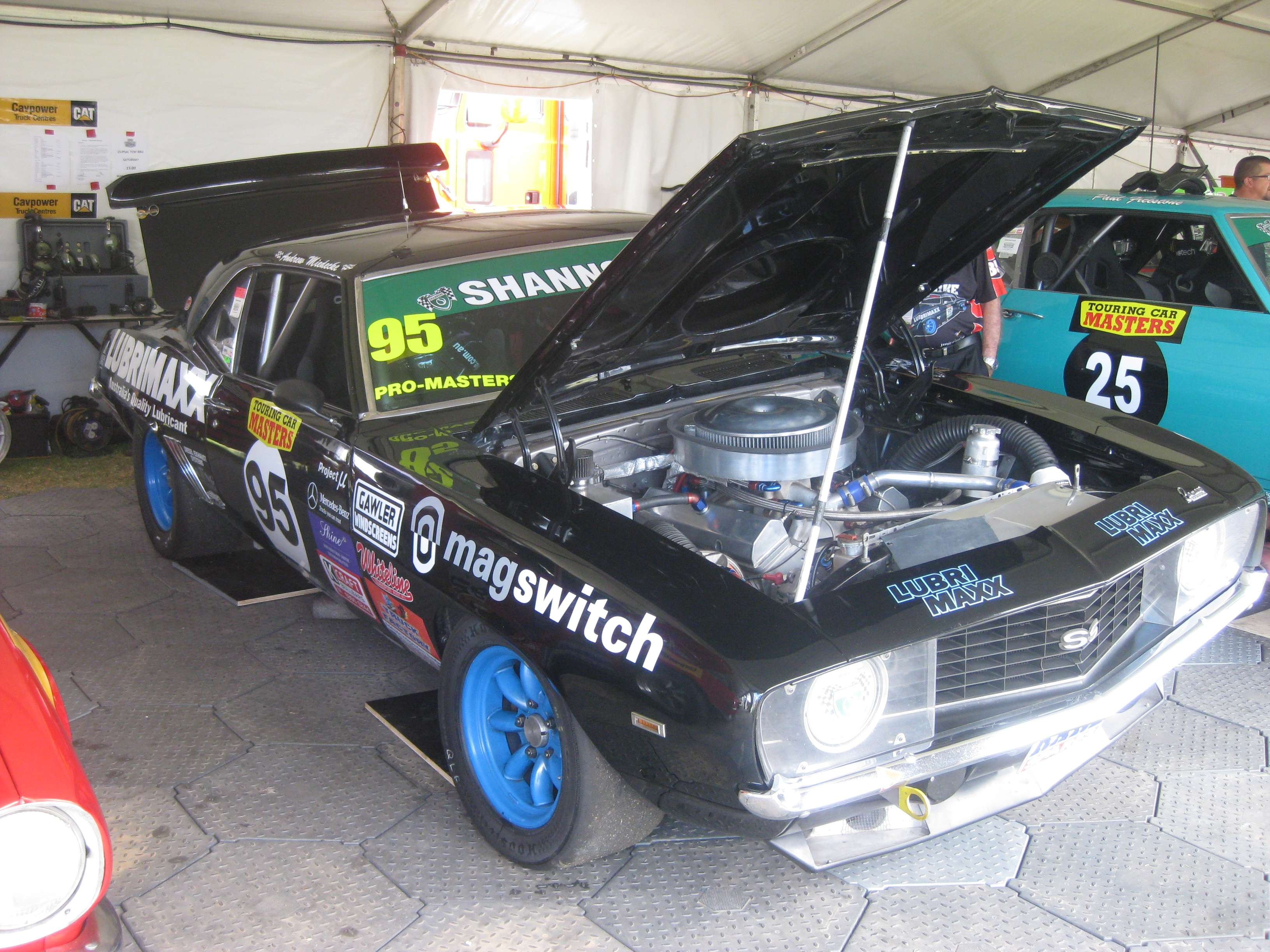 The 1969 Chevrolet Camaro SS of Andrew Miedecke at the Adelaide round of the 2015 Touring Car Masters